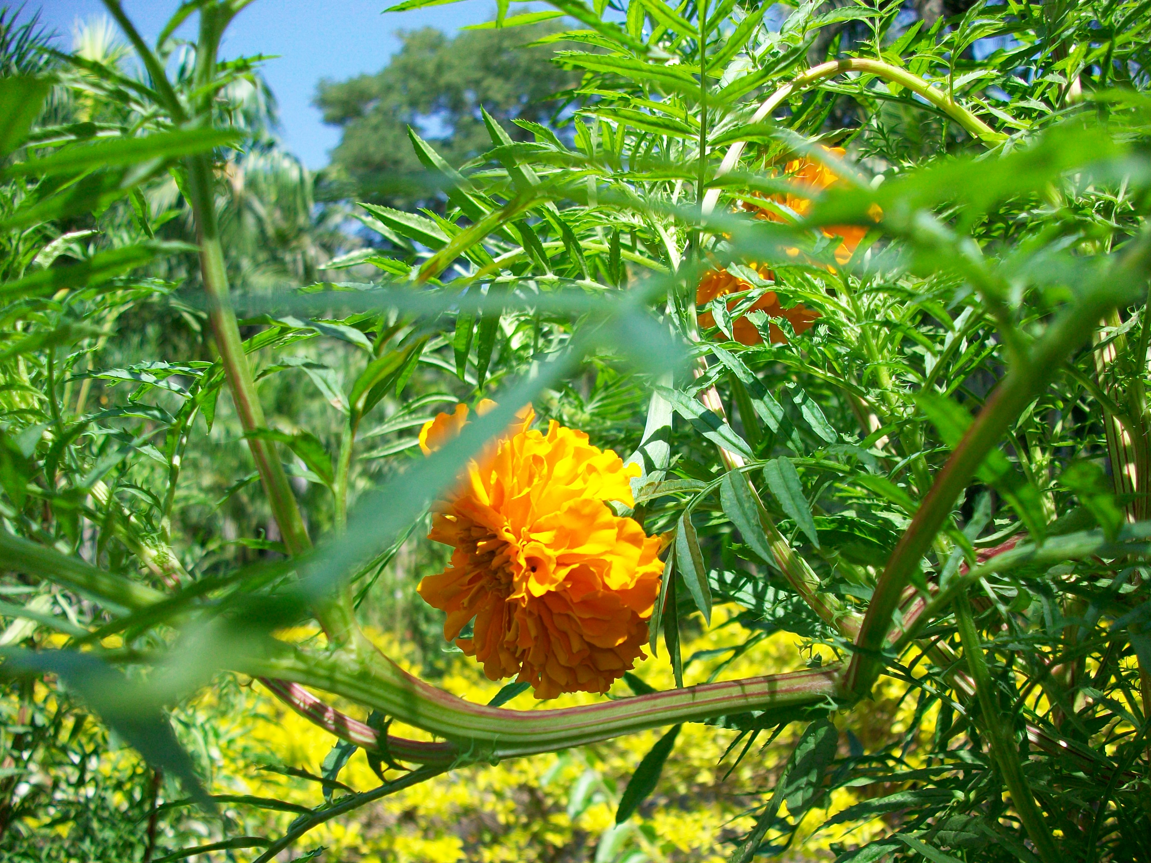 This beautiful picture of Marigold was taken at Saputara hill which is located on a plateau in the Dang forest area of Western Ghats (Sahyadri) range.